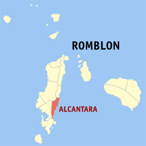 Map of Romblon showing the location of Alcantara